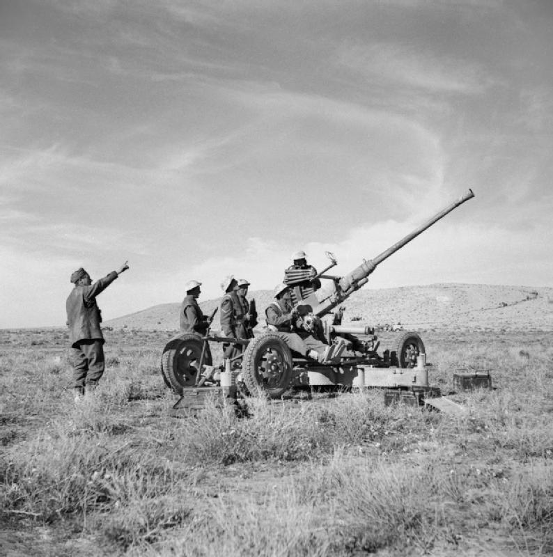 The British Army in North Africa 1942 A 40mm Bofor anti-aircraft gun, 22 March 1942.